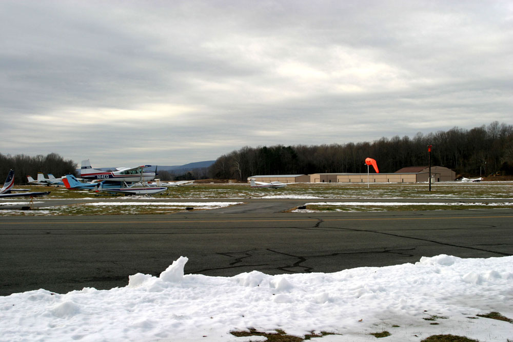 A picture of Blairstown Airport in Warren County, New Jersey.